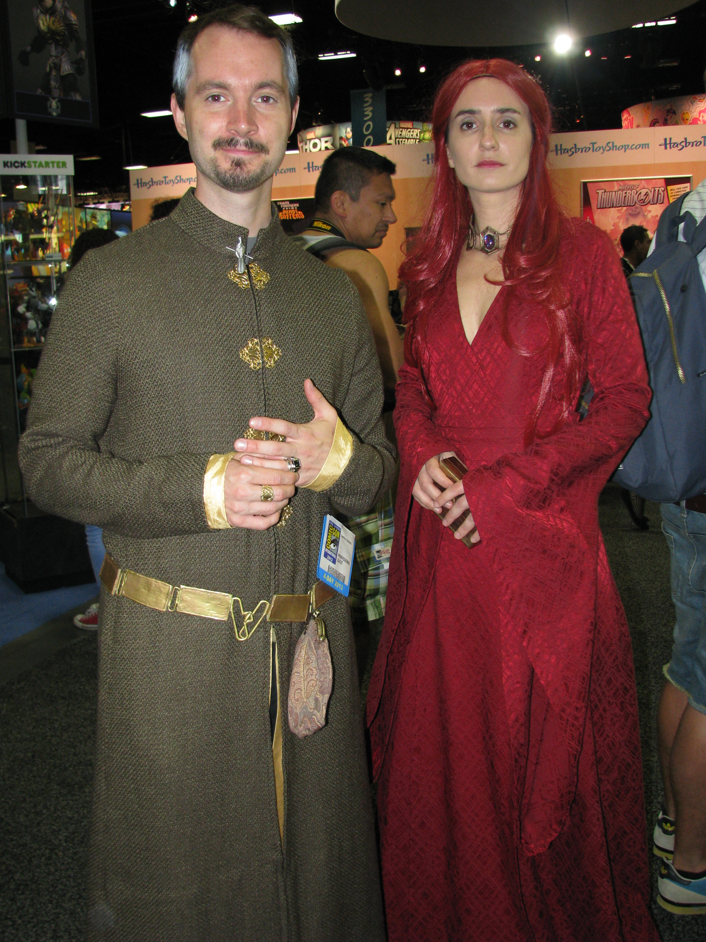 A cosplay of Littlefinger [left] and Melisandre The Red Witch [right] from Game of Thrones